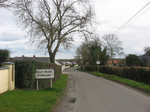 Stamullen, County Meath, near to Stamullin, Tobertown and Baile Mhic Gormain, Meath, Ireland. Entering the village from the north. Name is spelt 'Stamullin' by the O.S. but 'Stamullen' by everyone else.